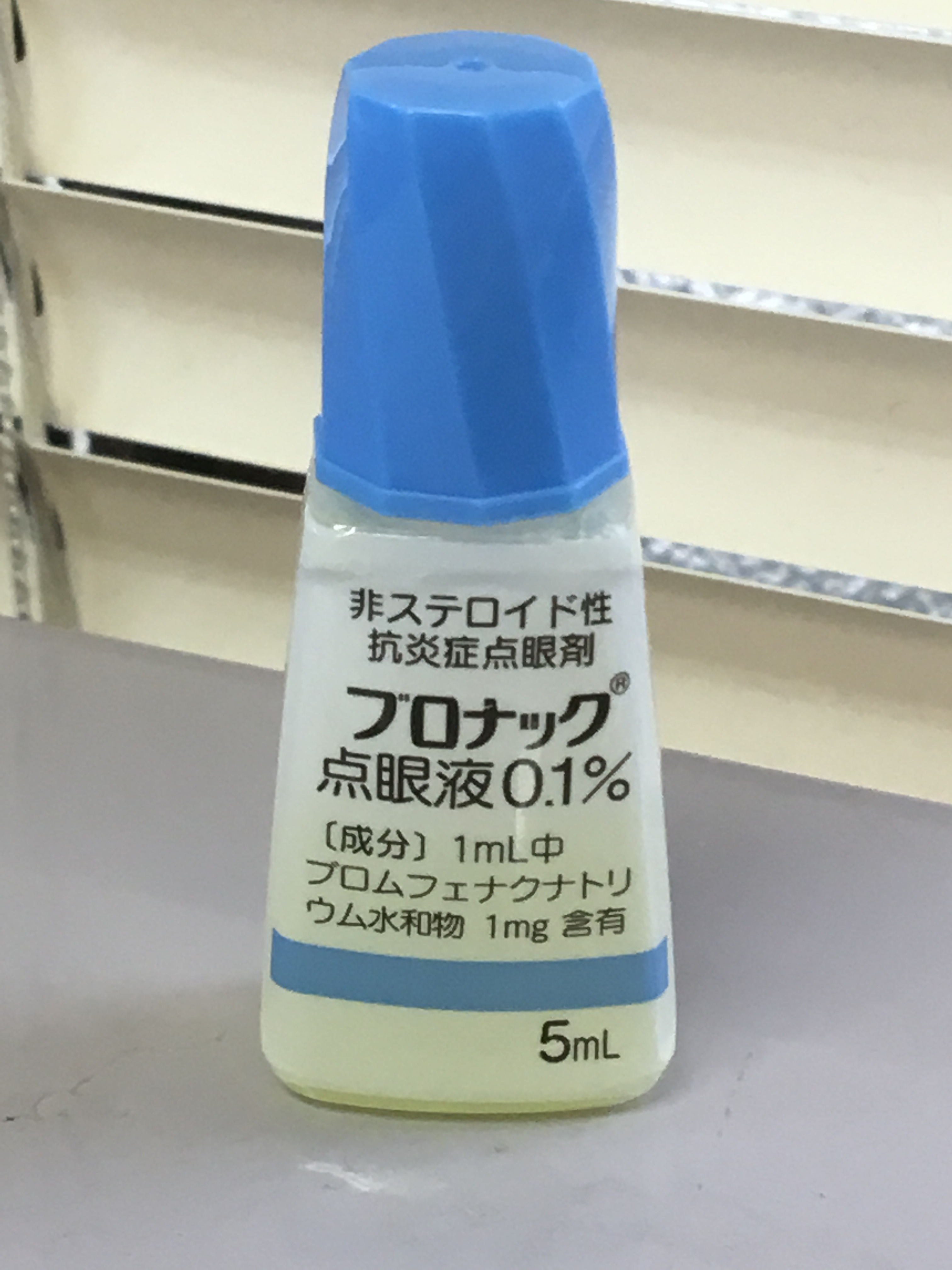 Bromfenac (bromfenac ophthalmic solution)